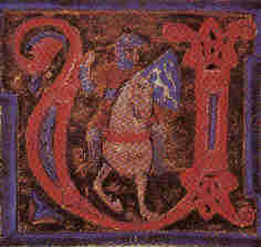 Thirteenth-century miniature from chansonnier A, where it accompanies the vida and seven songs of Guilhem de Berguedan.